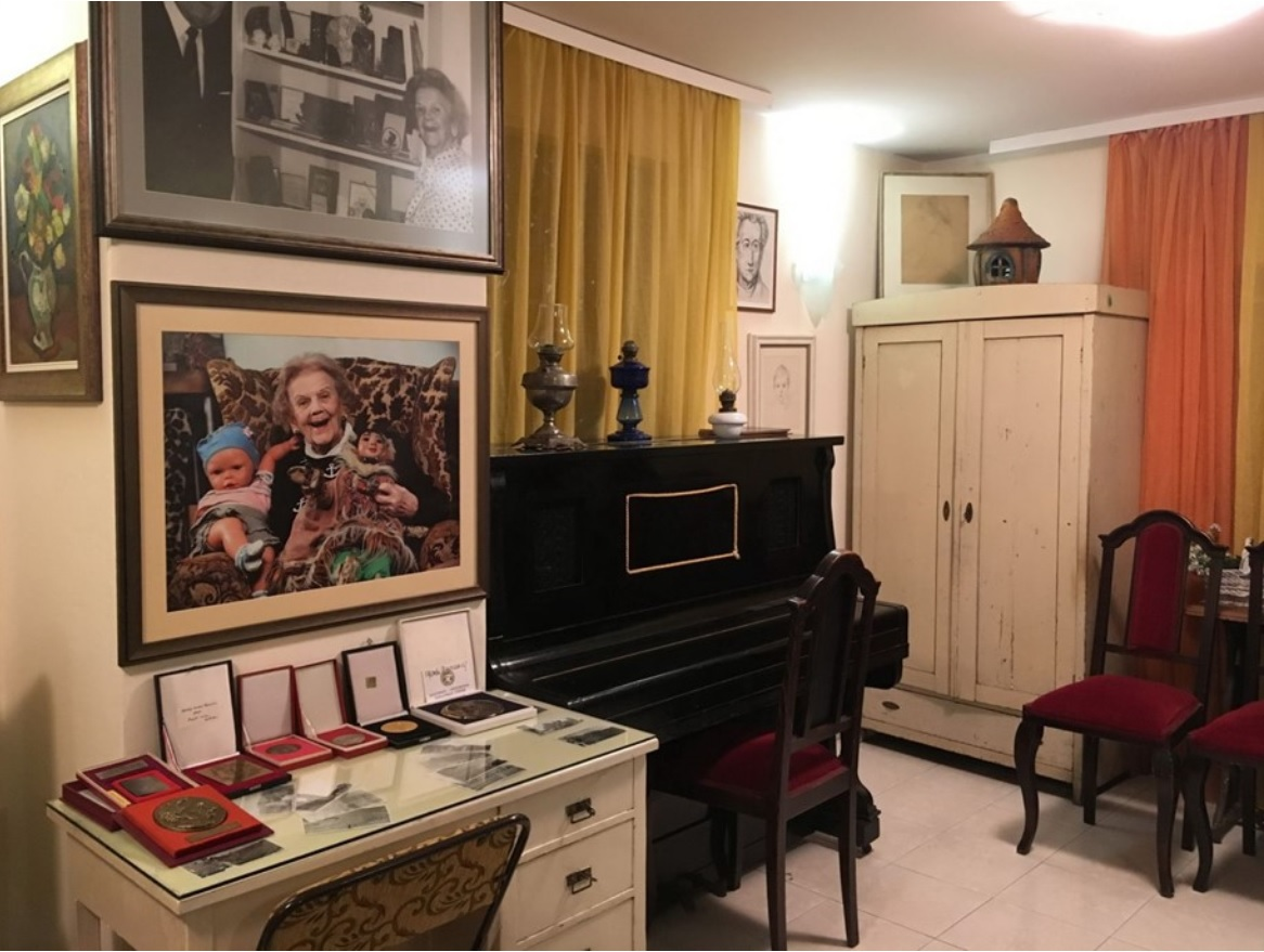 Legacy of Branka Veselinović in the Society for Culture, Art and International Cooperation Adligat in Belgrade, Serbia.